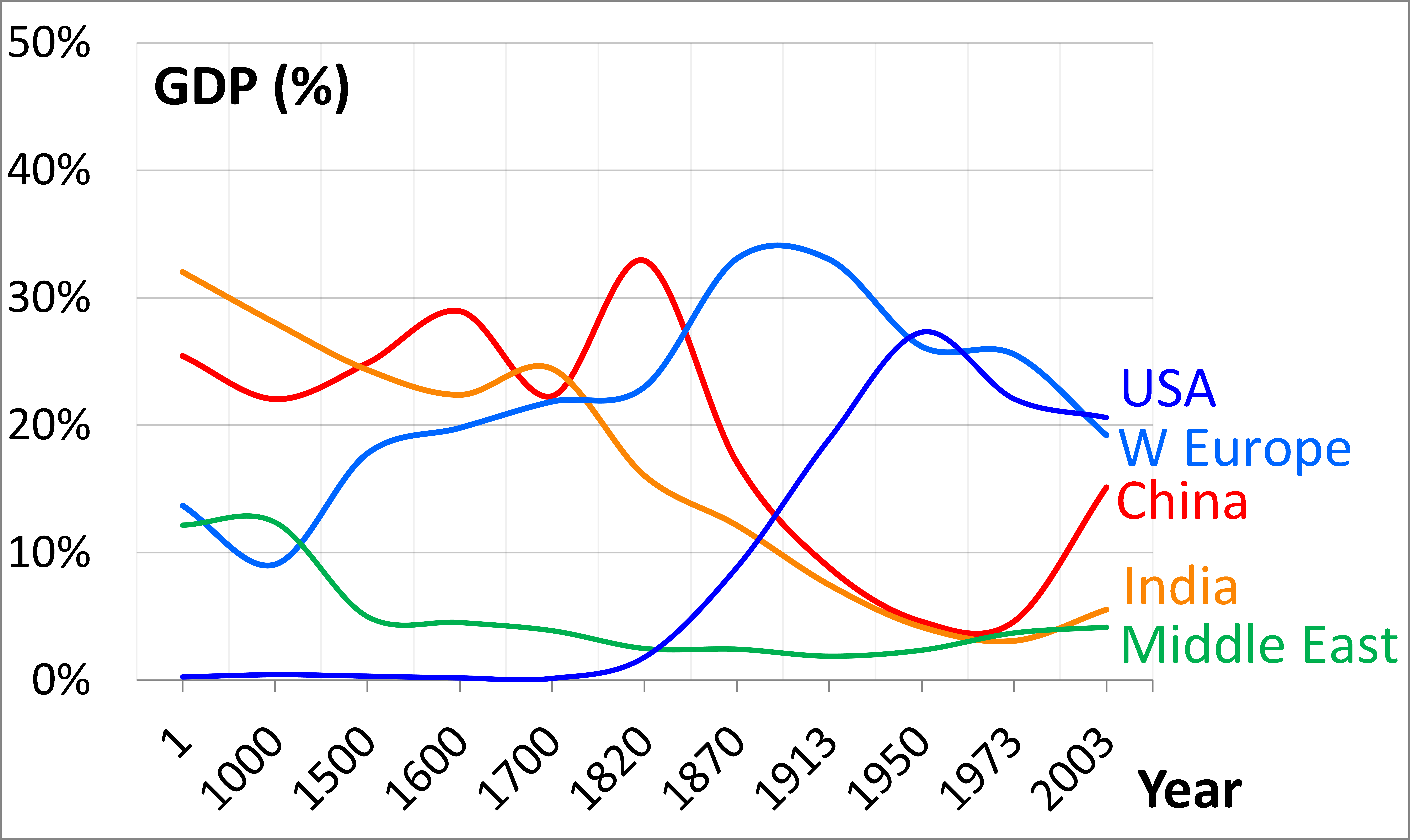 This map shows the evolution of global economies over 2000 years, in terms of percent GDP contribution by each major economy over history. The chart plots the data from the published tables of Angus Maddison, the British Economist. The %GDP of Western Europe in the chart is the region in Europe that includes the following modern countries - UK, France, Germany, Italy, Belgium, Switzerland, Denmark, Finland, Sweden, Norway, Netherlands, Portugal, Spain and other smaller states in the Western part of Europe. The %GDP of Middle East in the chart is the region in West Asia and Northeast Africa that includes the following modern countries - Egypt, Israel, Palestinian Territories, Lebanon, Syria, Turkey, Jordan, Saudi Arabia, Qatar, Bahrain, Kuwait, UAE, Oman, Yemen, Iran, Iraq and other regions in the Arabian region. Data Source: Maddison A (2007), Contours of the World Economy I-2030AD, Oxford University Press, ISBN 978-0199227204 The data can be downloaded in spreadsheet format here. The data can also be viewed in a different graph here, as prepared by Ken Henry (Secretary to the Treasury, Australian Government, 18 May 2010).